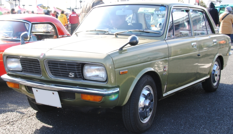 Honda 1300 77 S-type